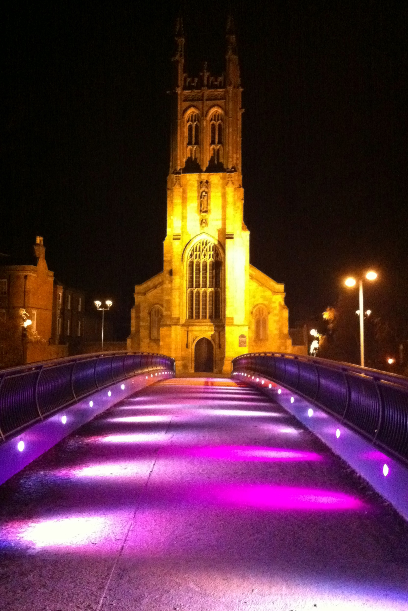 View across St Alkmund's Way footbridge to St Mary's parish church, Derby